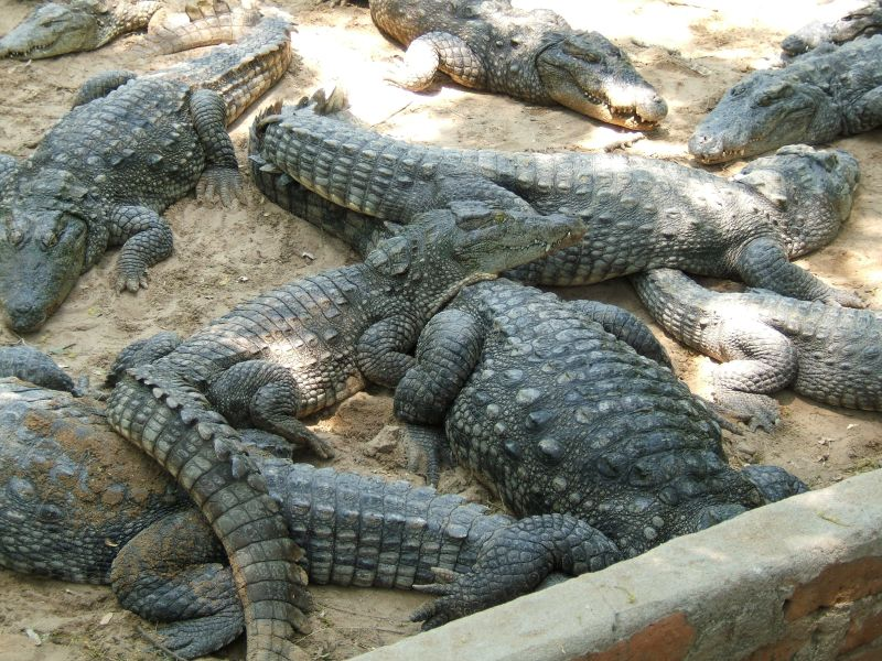 Crocodile Bank near Chennai